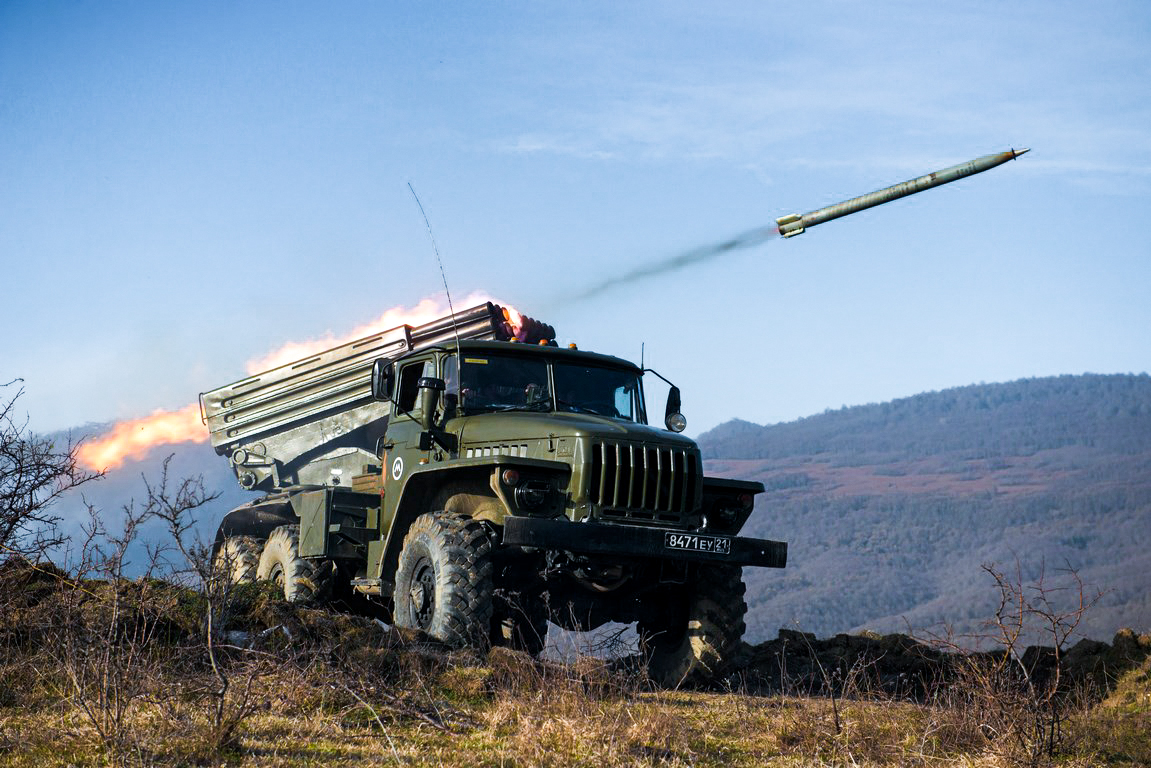 The combat firing of the Russian 7th military base.